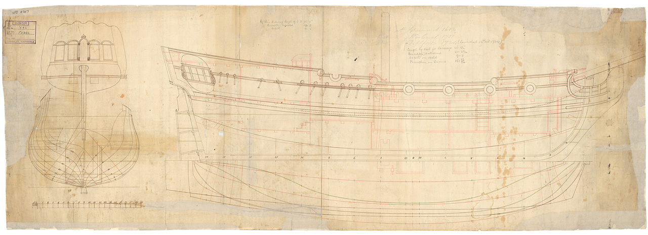 Fubbs (1682) Scale 1:32. A drawing of the Royal yacht Fubbs (1682), showing sheer lines with inboard detail, body plan with stern board, and longitudinal half-breadth. On the reverse is a plan of cabins and elevations of bulkheads. With dimensions and historical notes in pencil: 'Built at Greenwich 1682 Rebuilt at Woolwich 1701 Rebuilt at Deptford 1724 (launched 22nd Oct 1724)'. NPD0707; Ship plan FUBBS. Front of plan